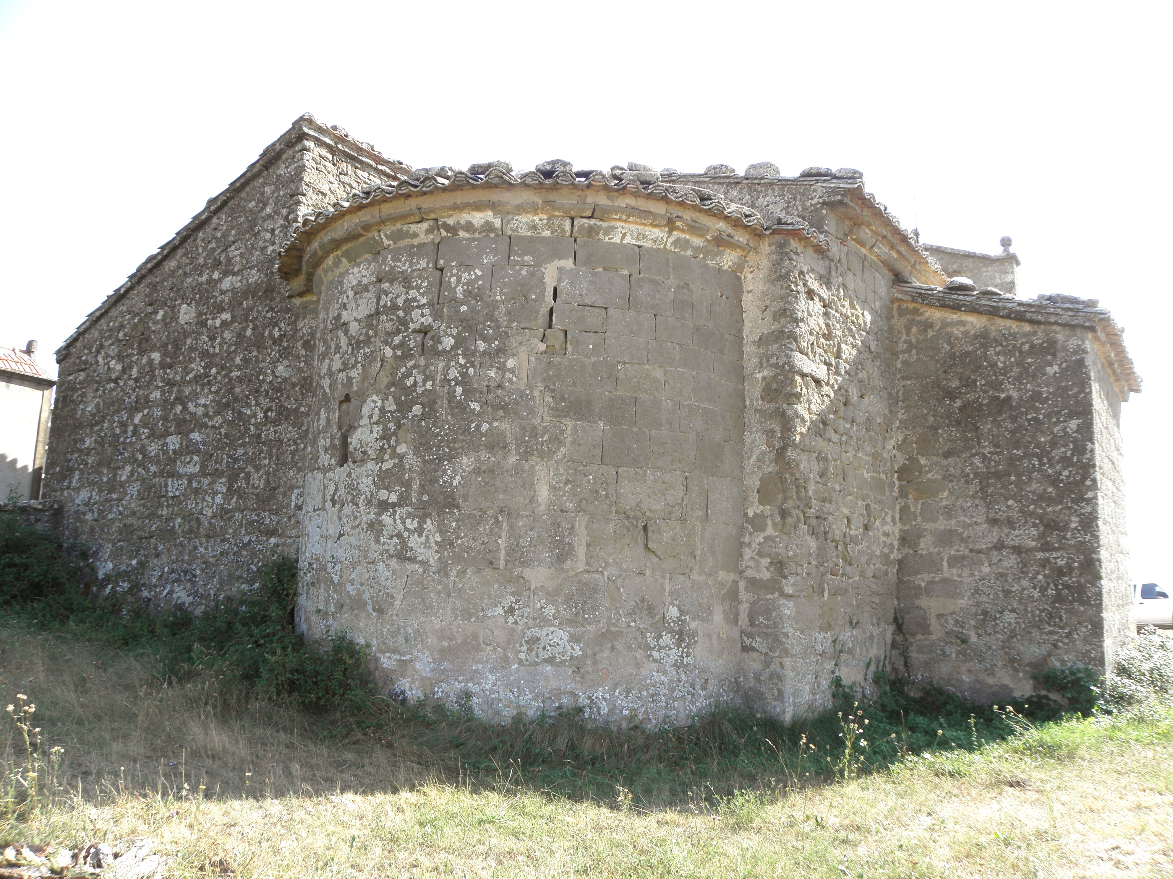 L'absis de l'església de Sant Pere de Miravé, municipi de Pinell de Solsonès.